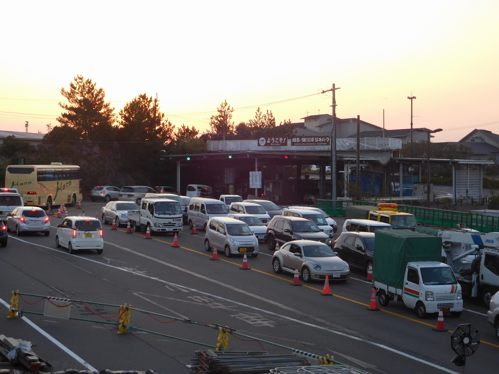 The Toll Gate of Sakurajima Ferry (Kagoshima Prefecture, Japan)